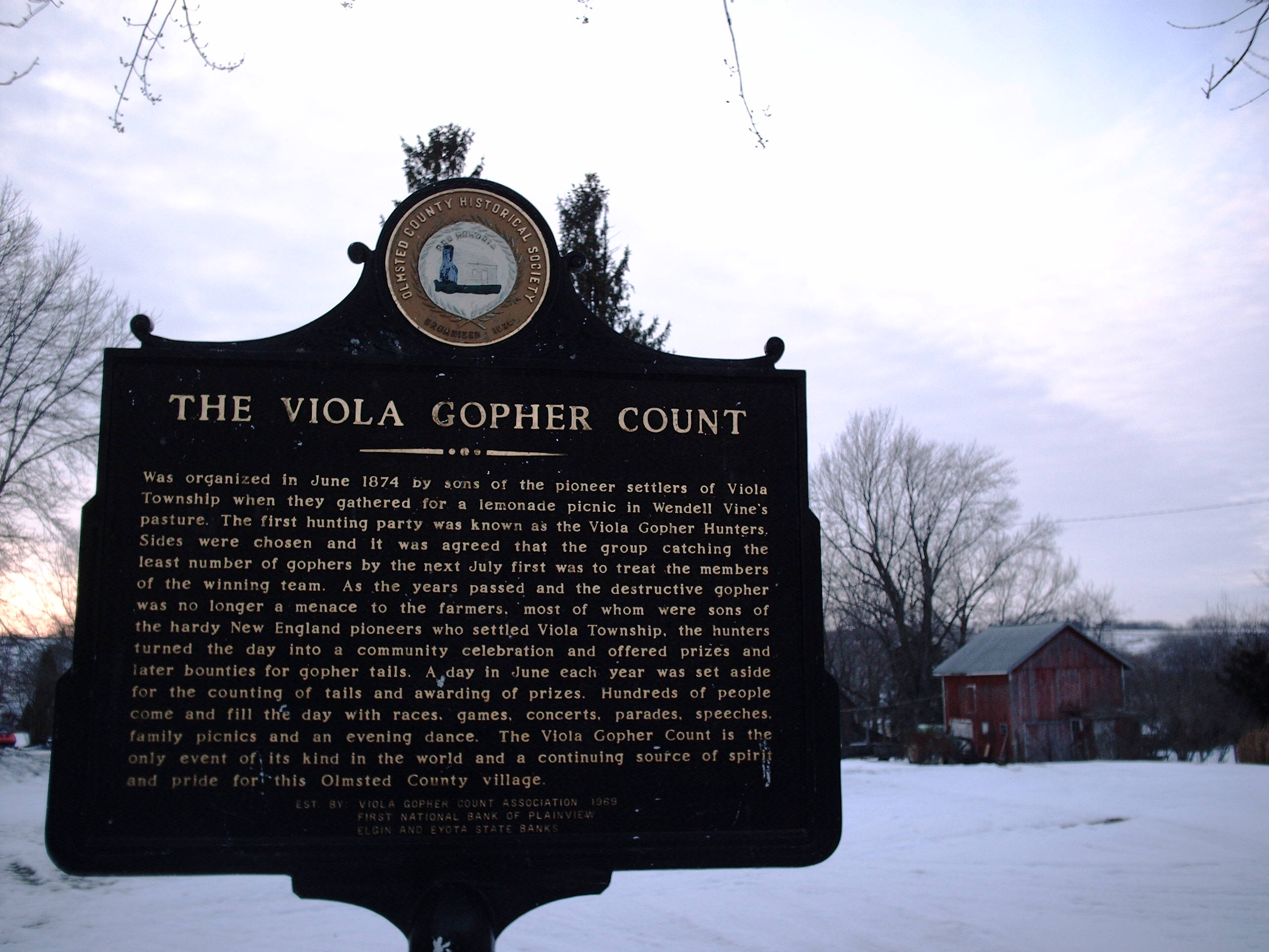 Monument describing the Viola Gopher Count.